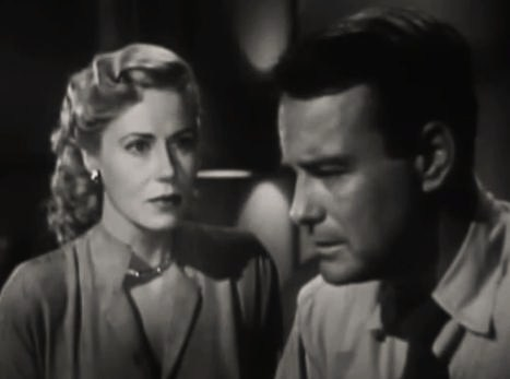 Jacqueline White and Lew Ayres in The Capture - cropped screenshot